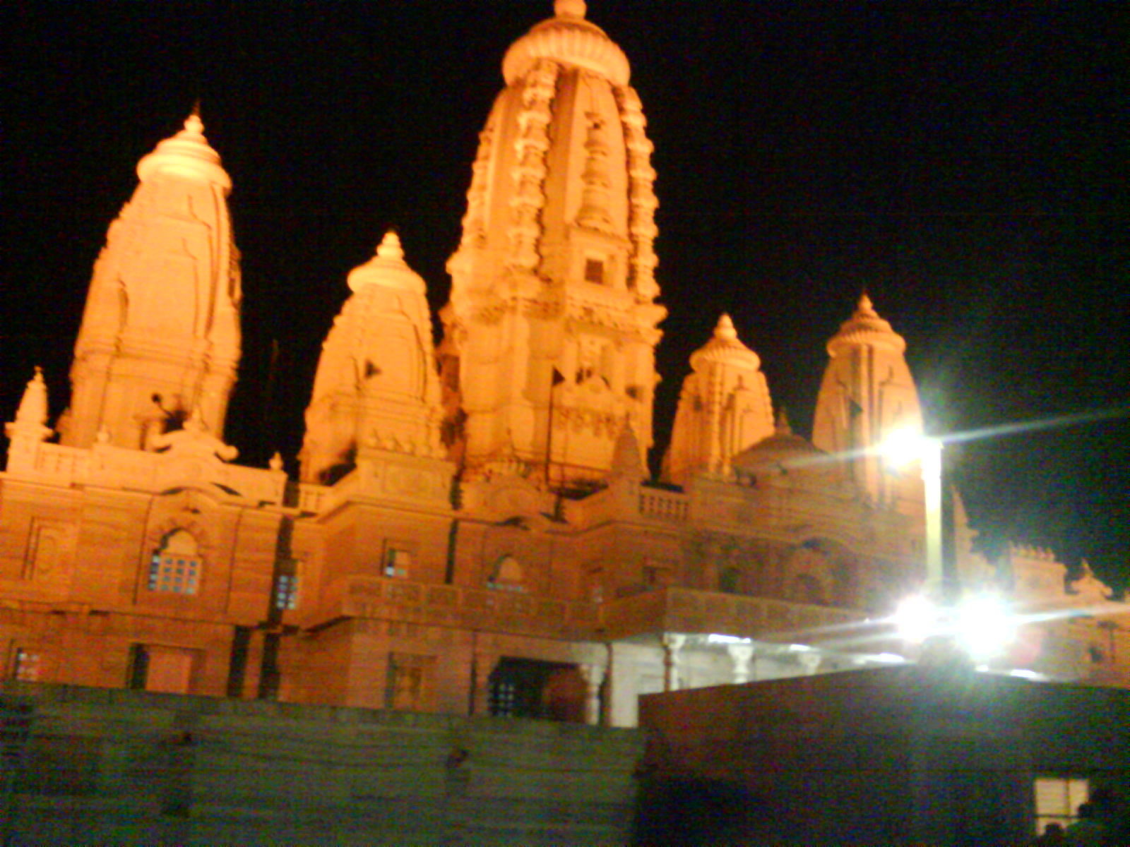 JK Temple